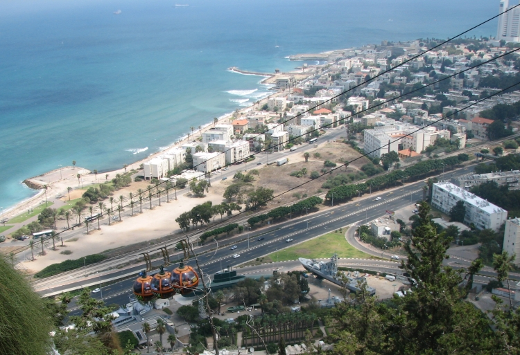 Haifa cableway car descending from top of Carmel to Bat Galim.